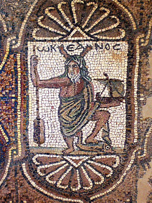 Petra, Jordan. Mosaic of the god Oceanus Petra, Jordan. Mosaic of the god Oceanus (Ωkεανός)